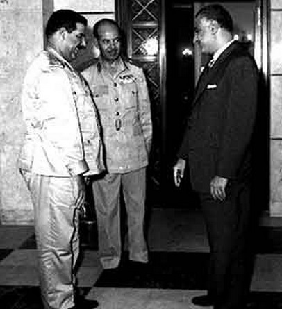 Iraqi Defense Minister Hardan al-Tikriti (right) meeting with Egyptian President Gamal Abdel Nasser (left). Egyptian Defense Minister Mohamed Fawzi is standing in the center.